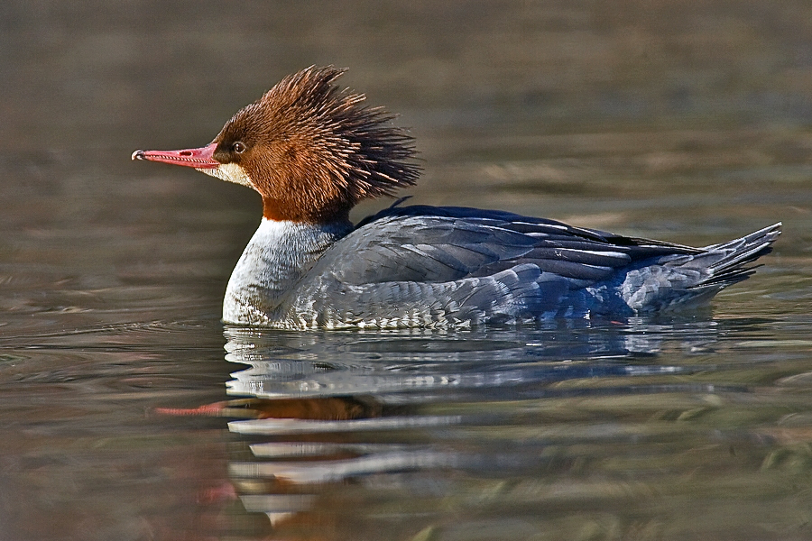 Common Merganser (Female), LaFarge Lake, Coquitlam, British Columbia